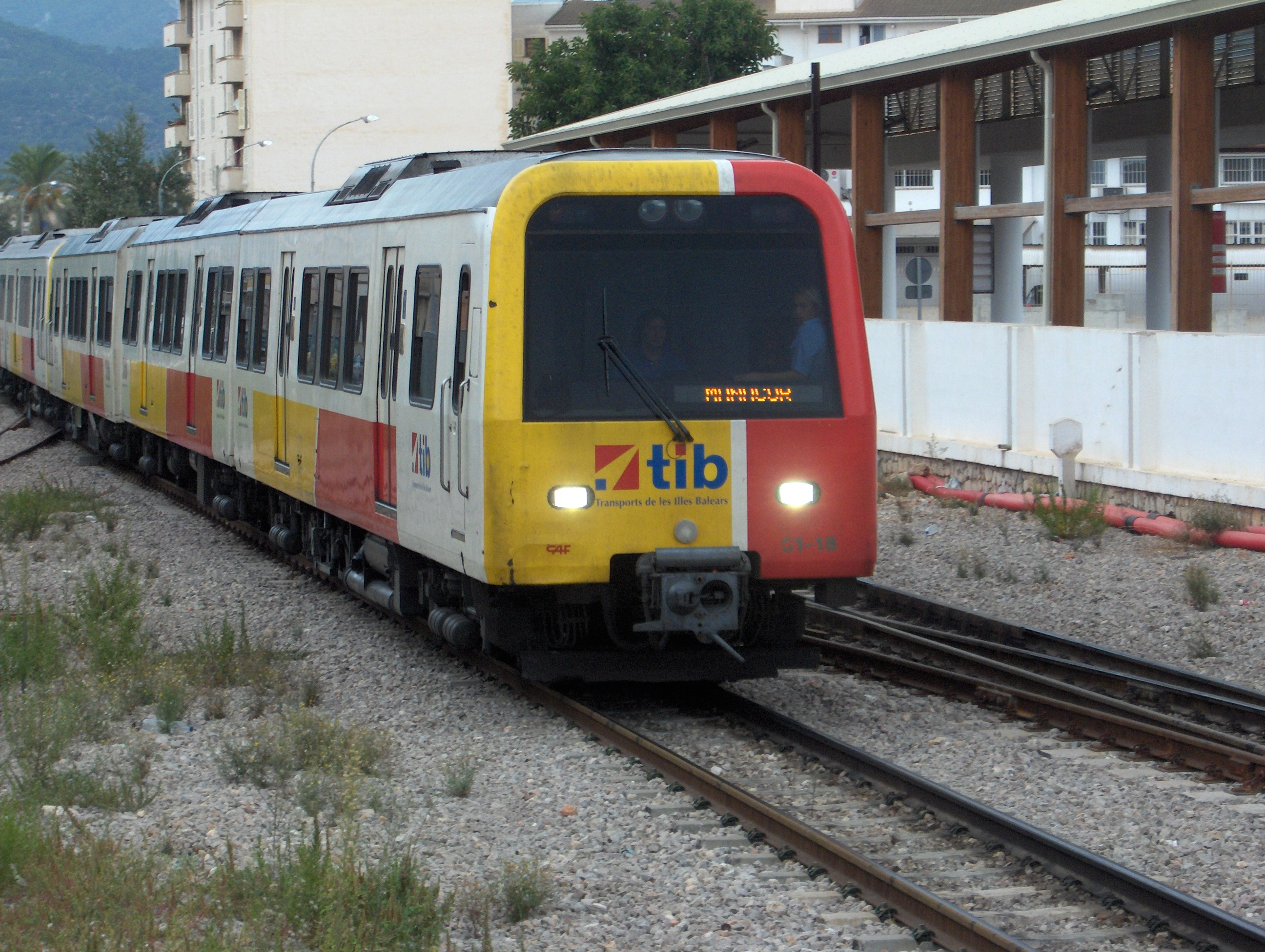 Class61 arriving at Inca on Mallorca